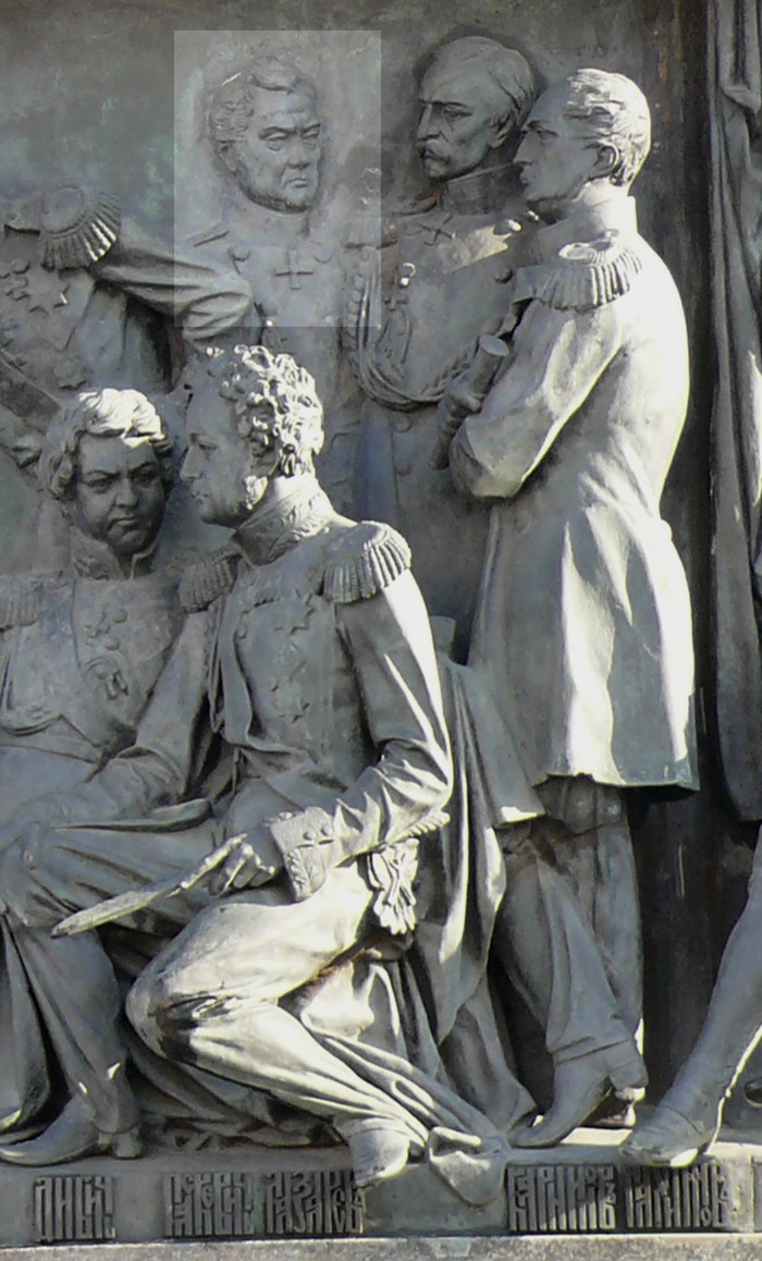 Mikhail Lazarev on the Monument «Millennium of Russia» in Veliky Novgorod